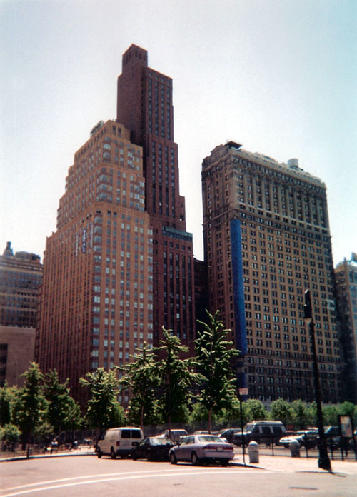 New York City Skyscrapers from the 1900's - 1930's. May 2001.